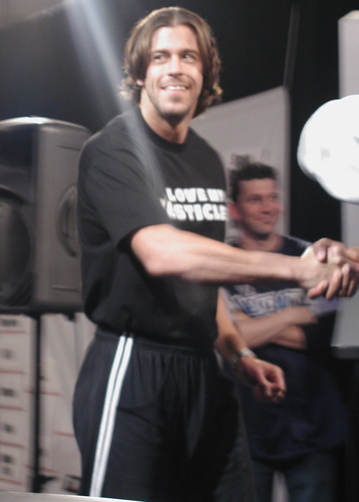 Stevie Richards at WWE Fan Axxess. Seattle March 2003.